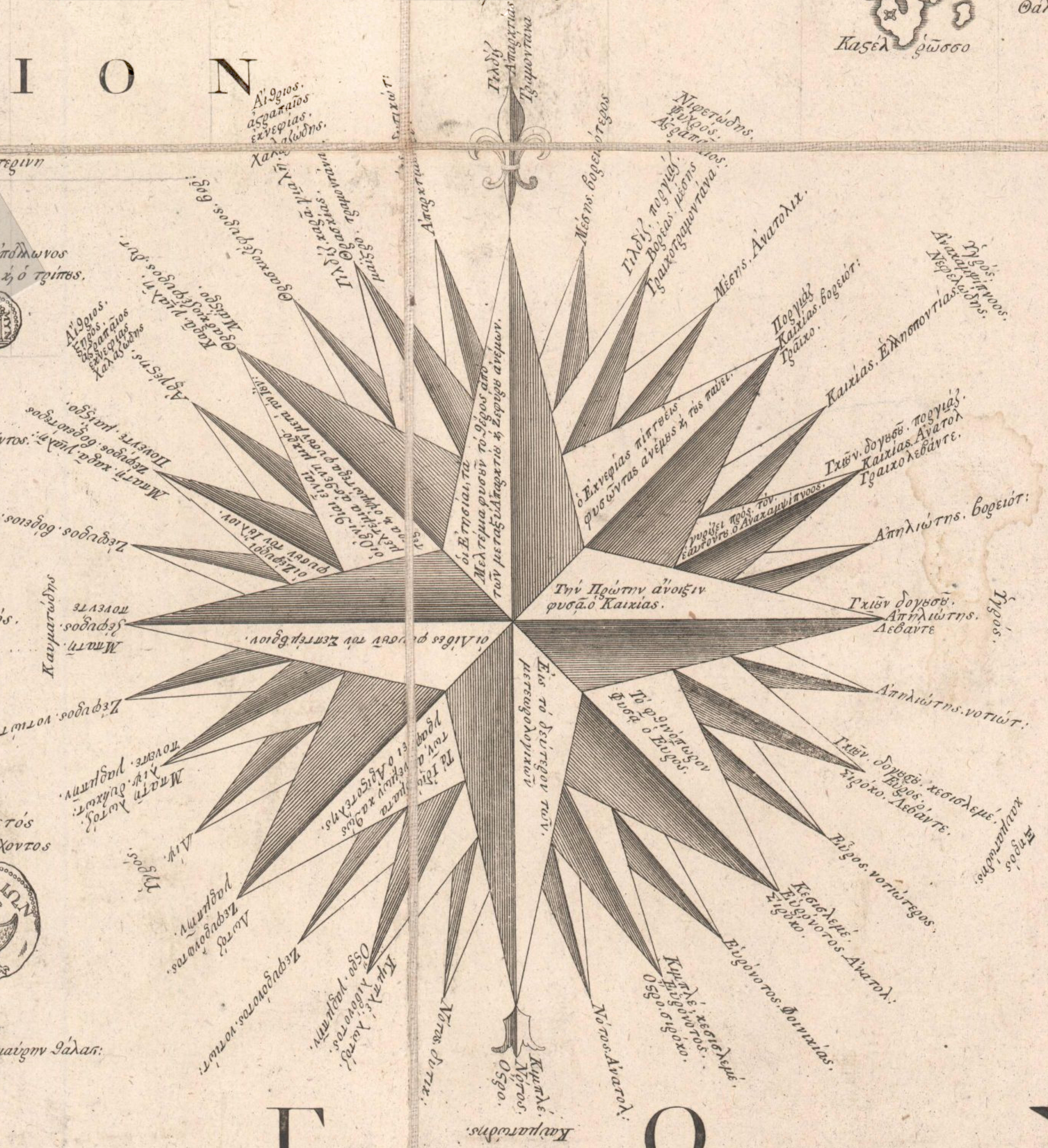 (Part 3 - Wind index) Charta of Greece / Rigas Charta, Rigas Velestinlis, 1797